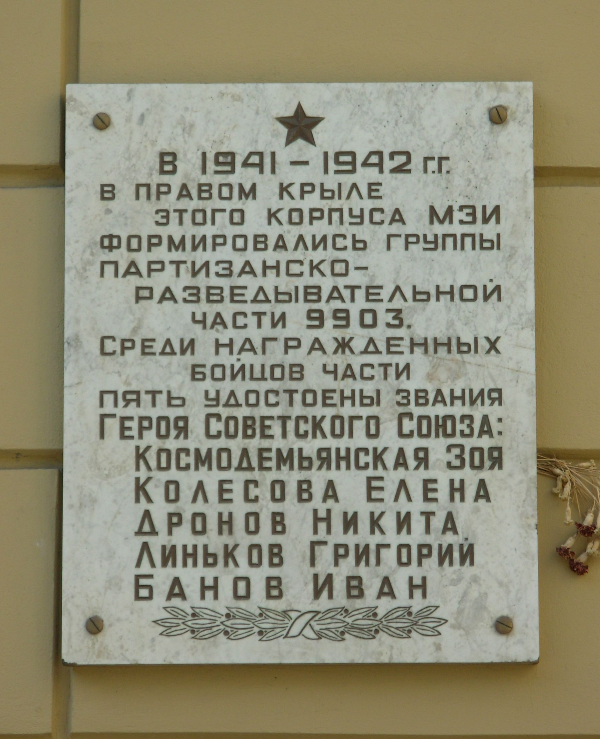 Moscow Power Engineering Institute Russia